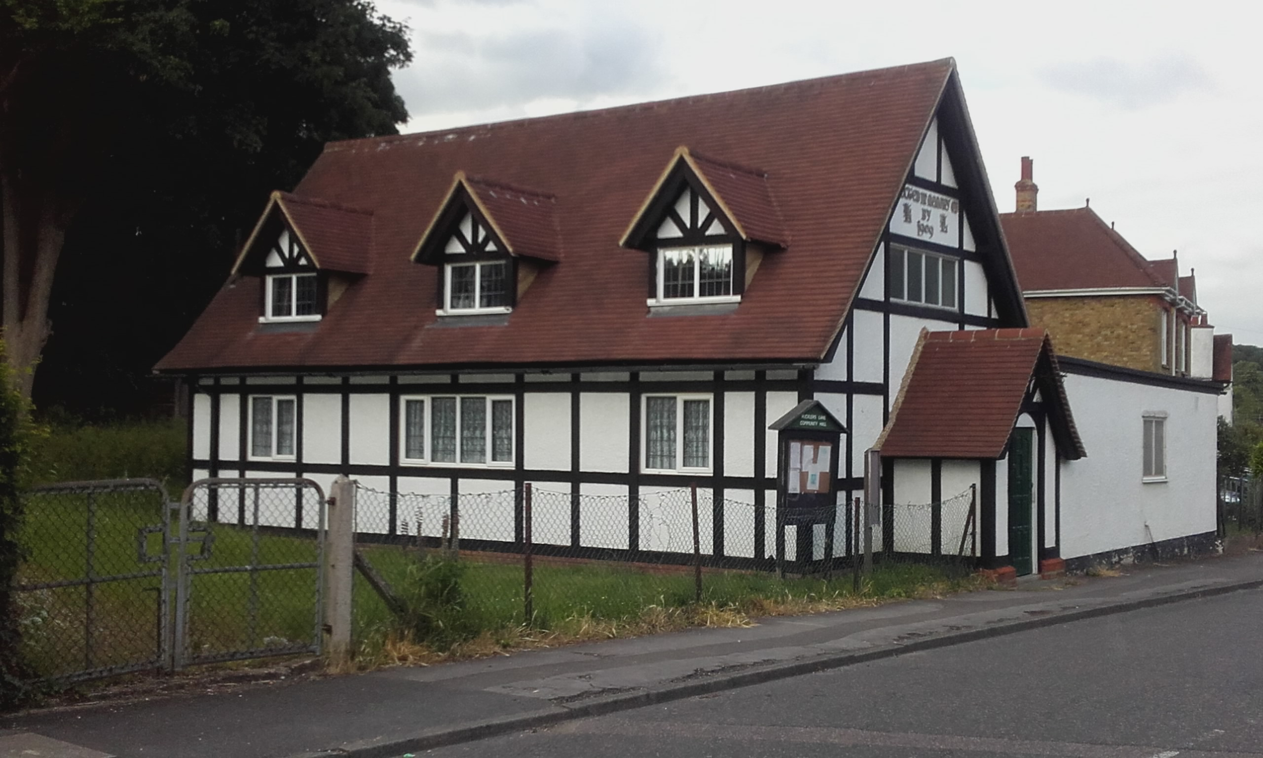 The Rucklers Lane Community Hall near Kings Langley, Hertfordshire. It was built for the workers of nearby Shendish Manor in 1909 as a memorial to Arthur Longman, the owner of the estate, and was originally intended as a chapel of ease to avoid the long walk to the parish church.